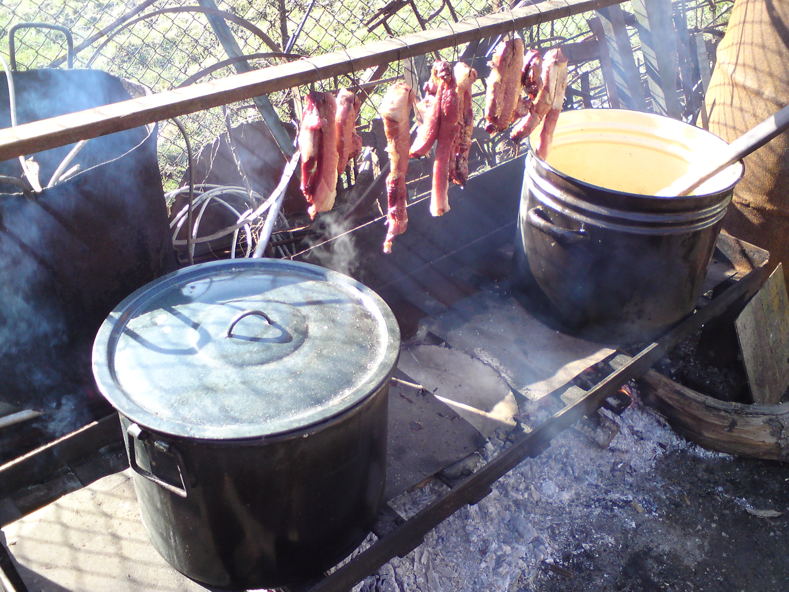 Pork rind making